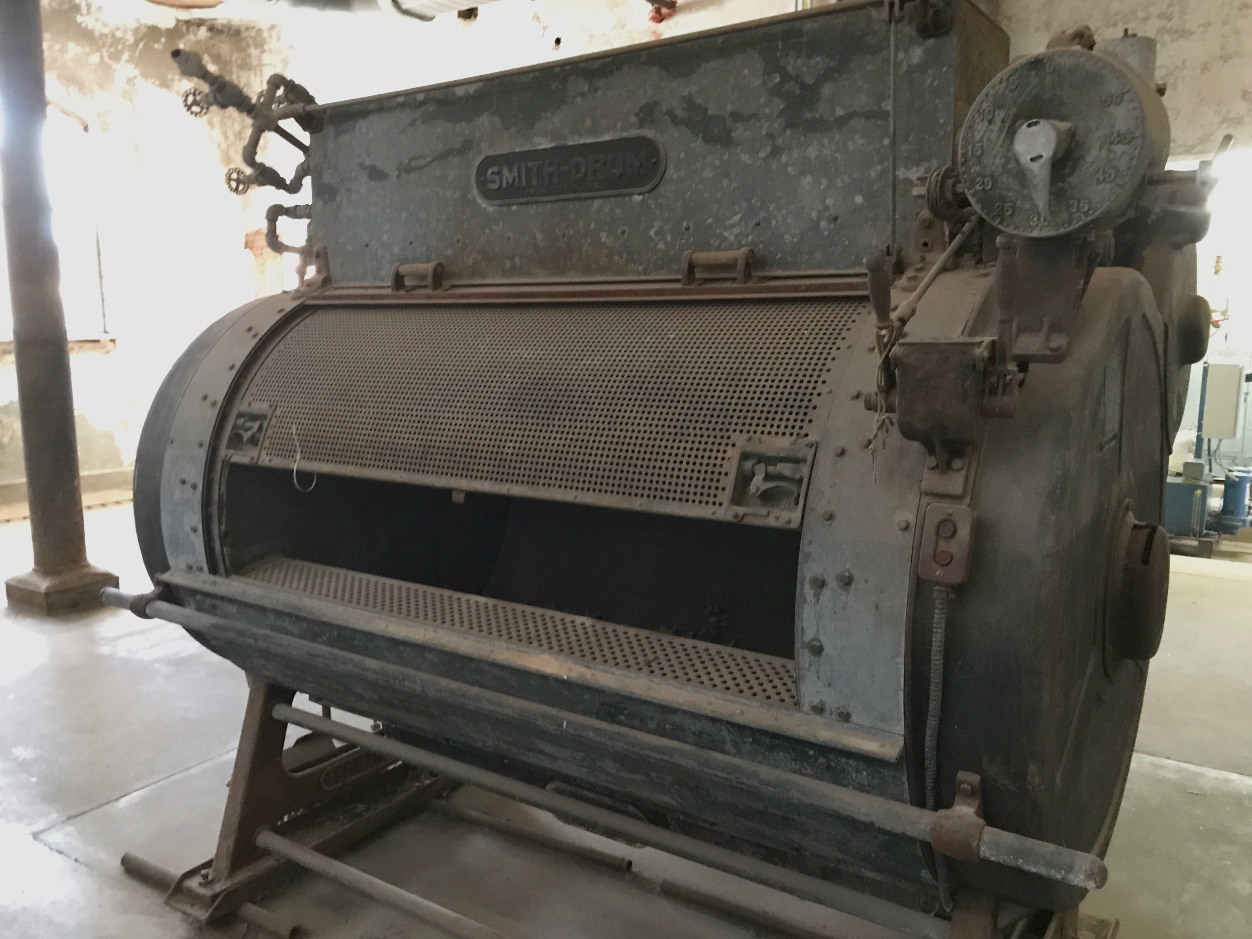 A Smith Drum machine in the laundry room of the Outbuilding of the Ellis Island Immigrant Hospital.